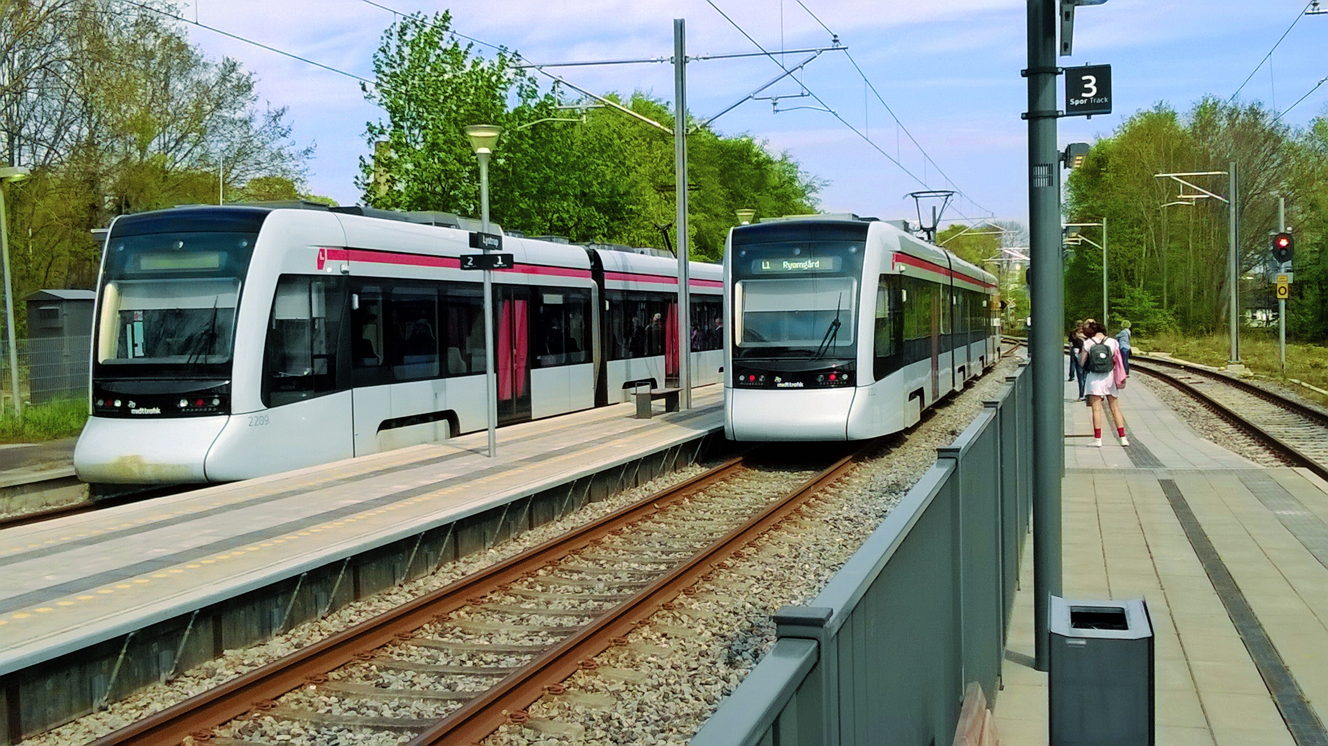 Aarhus Letbane, Lystrup Station 2019